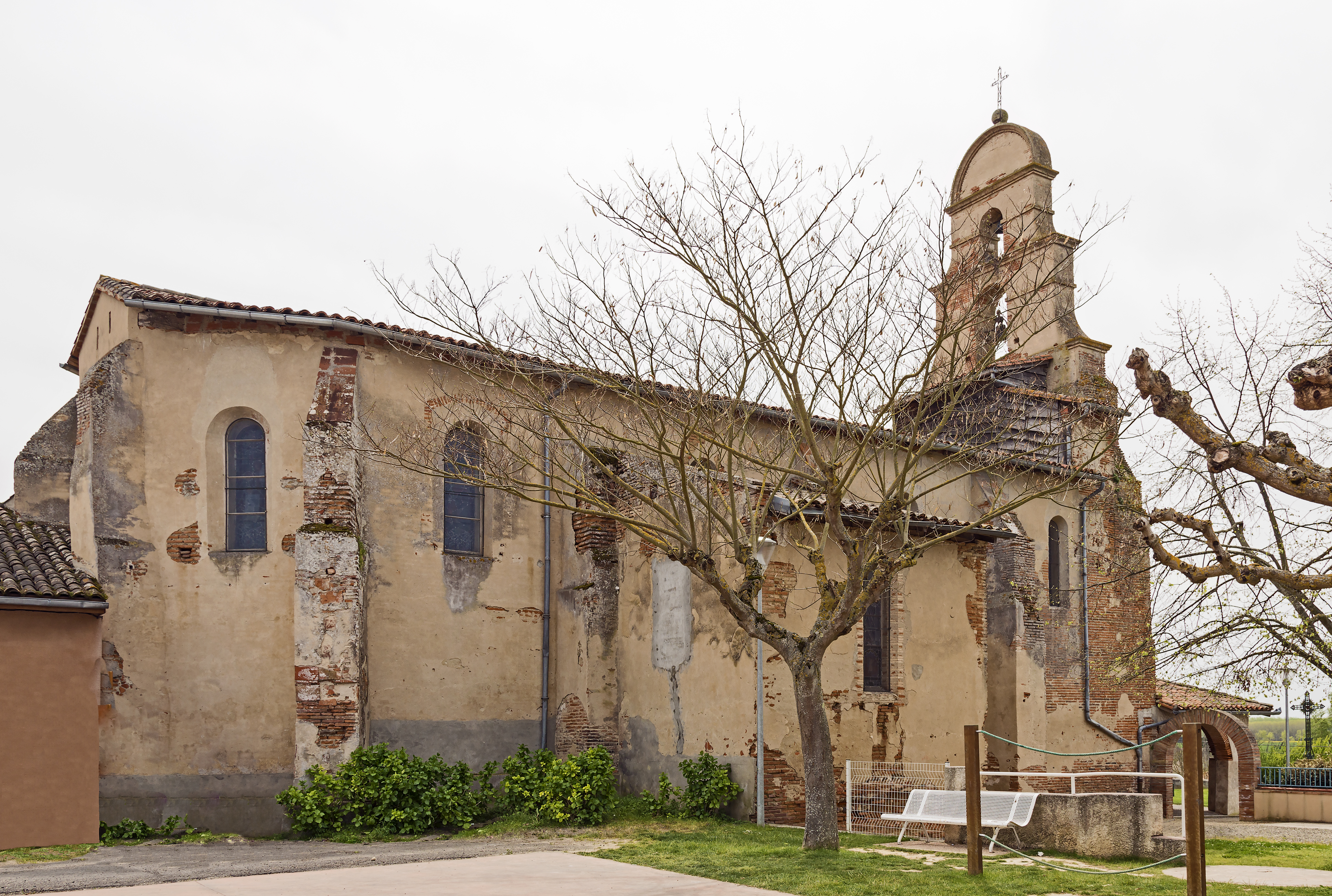 Church of Notre-Dame-de-l'Assomption in Bessens Tarn-et-Garonne France.